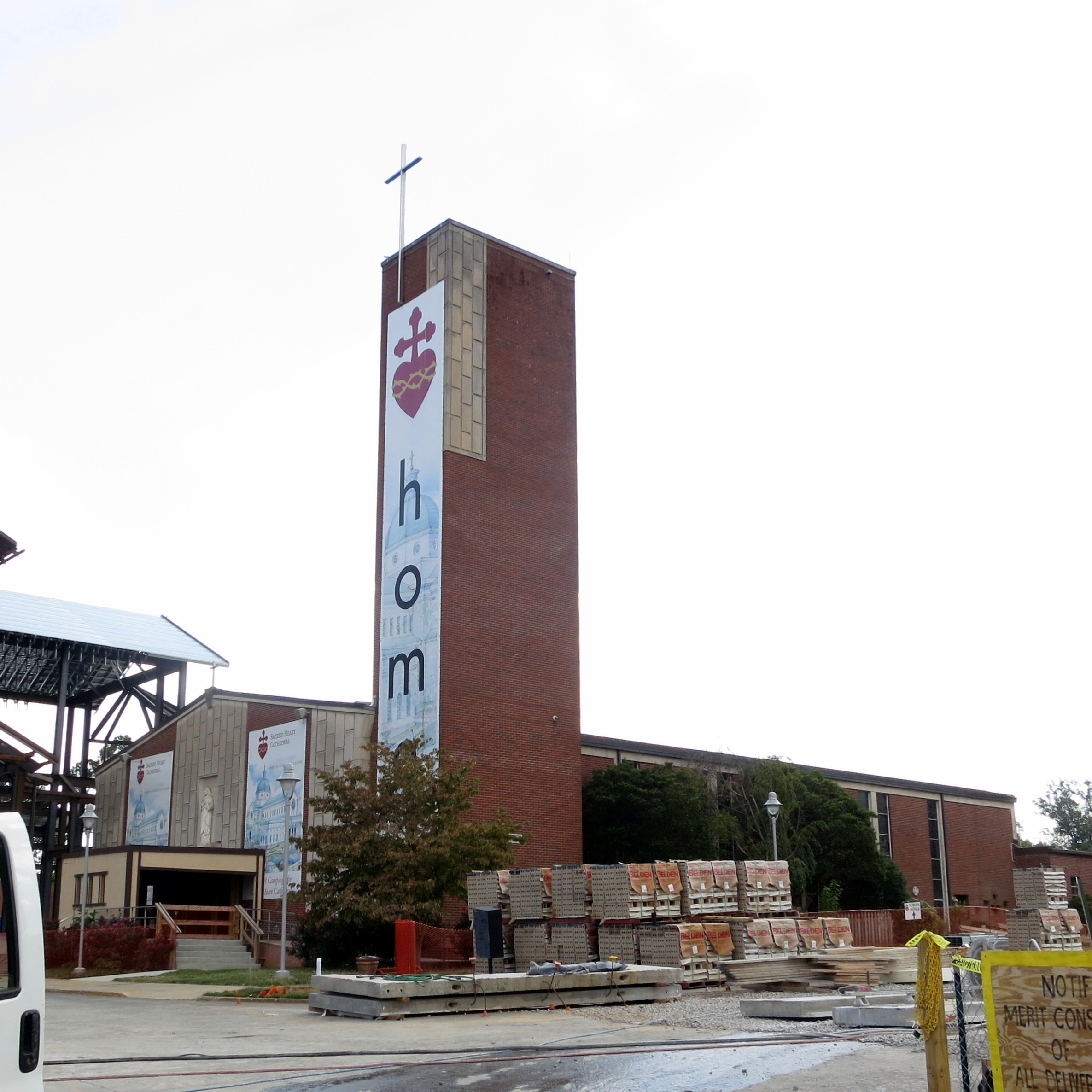 Sacred Heart Cathedral (Knoxville, Tennessee) - exterior, with new cathedral under construction